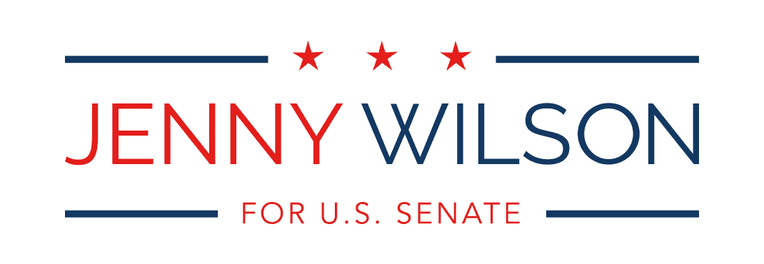 Jenny Wilson